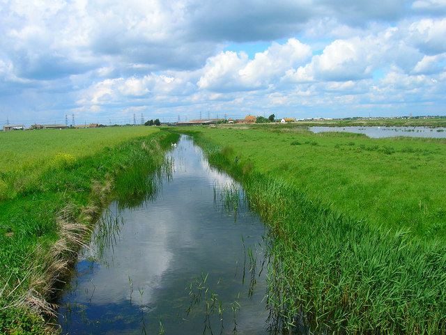 Dengemarsh Sewer Taken from the bridge carrying the bridleway from Denge Marsh through Dungeness Nature Reserve. Manor Farm is in the centre, Brickwall Farm to the left and the town of Lydd on the right.